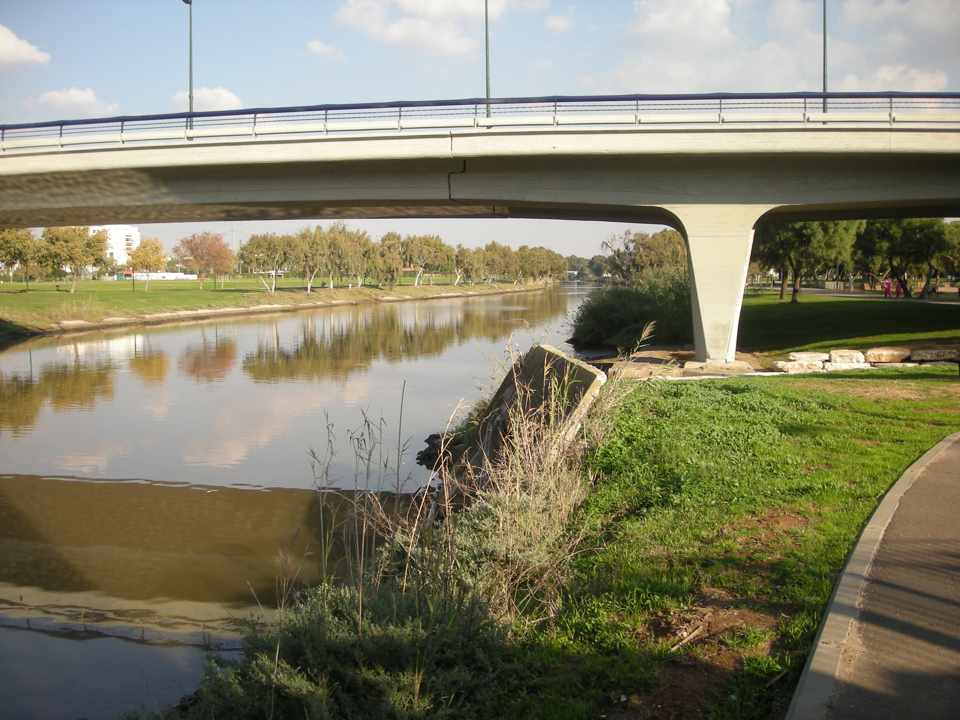 Bridge passing over the Yarkon River near its outlet into the Mediterranean.